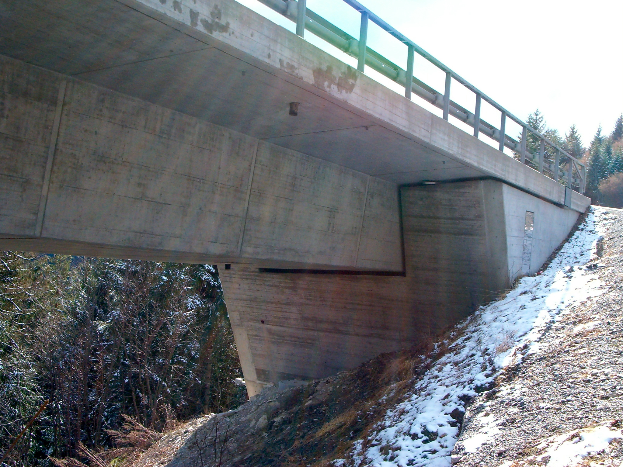 Castielertobel Bridge with conjuction to street